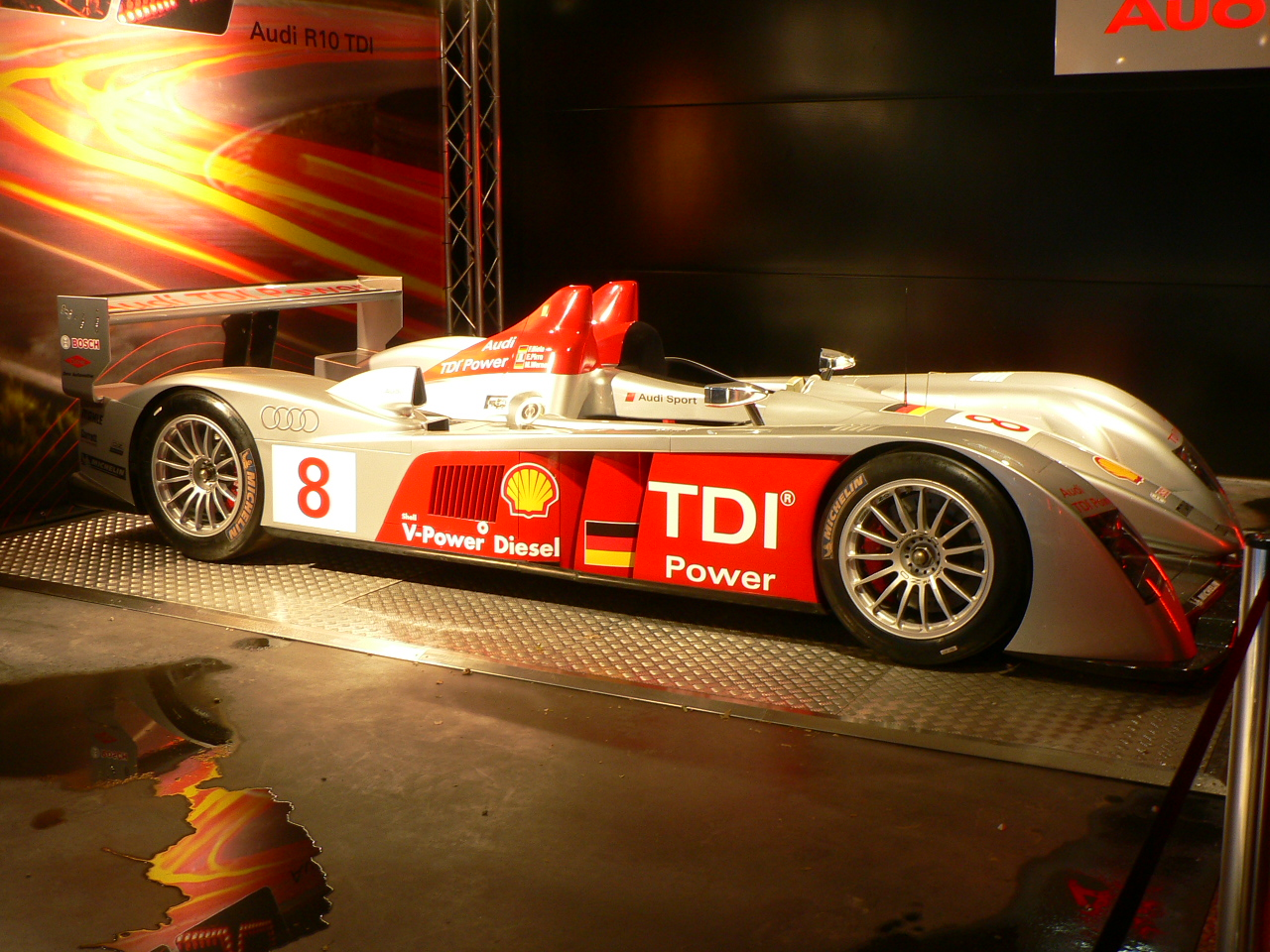 Description: Audi R10 in exhibition at the 24 heures du mans 2006 - Le Mans (France) Date: 14 June 2006 Photographer/illustrator: Eyone Uploader: Eyone